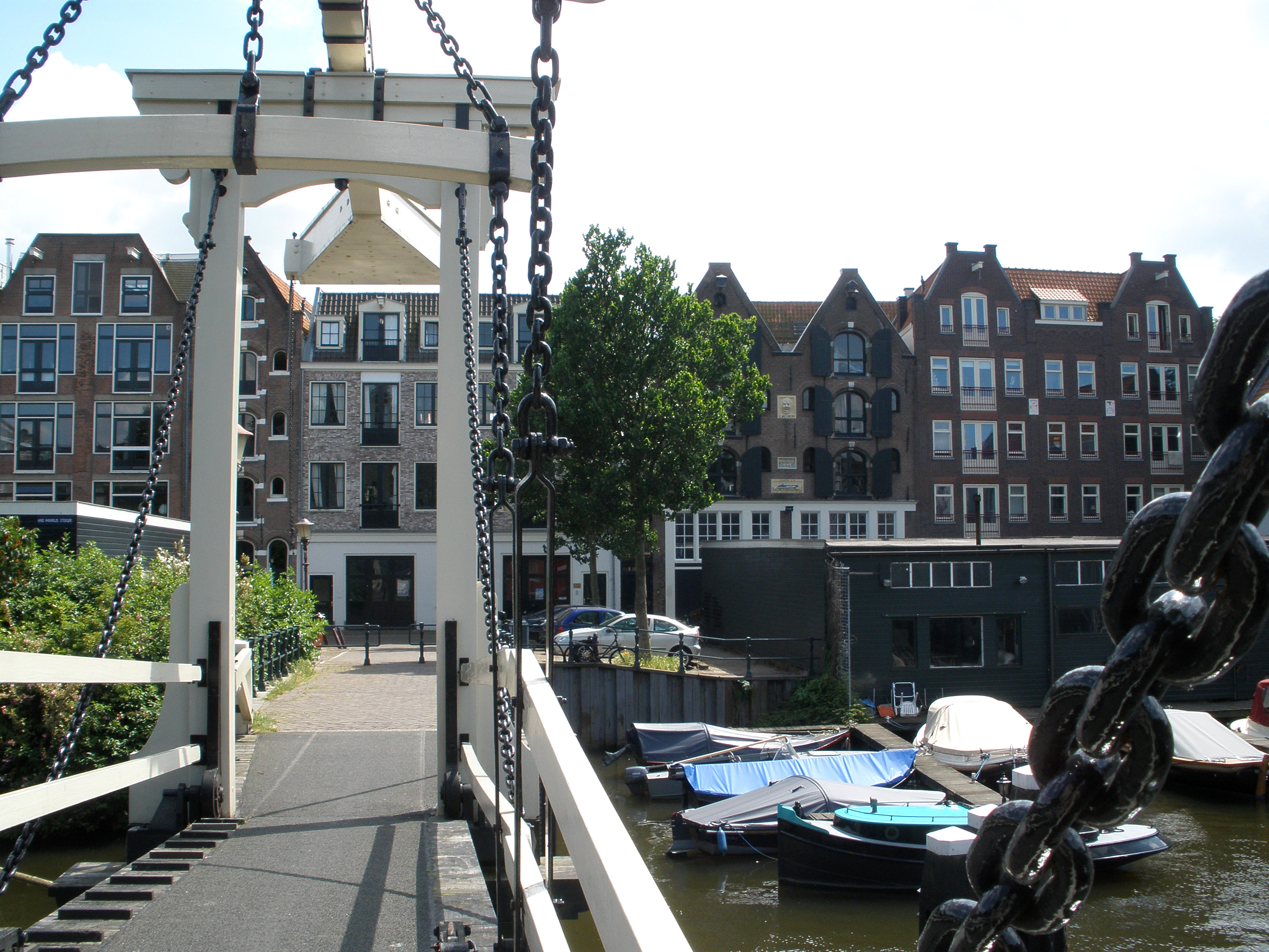 Viewing south towards Prinseneiland ("Prince's Island") in Amsterdam. The photo was taken from the bridge to Realeneiland.